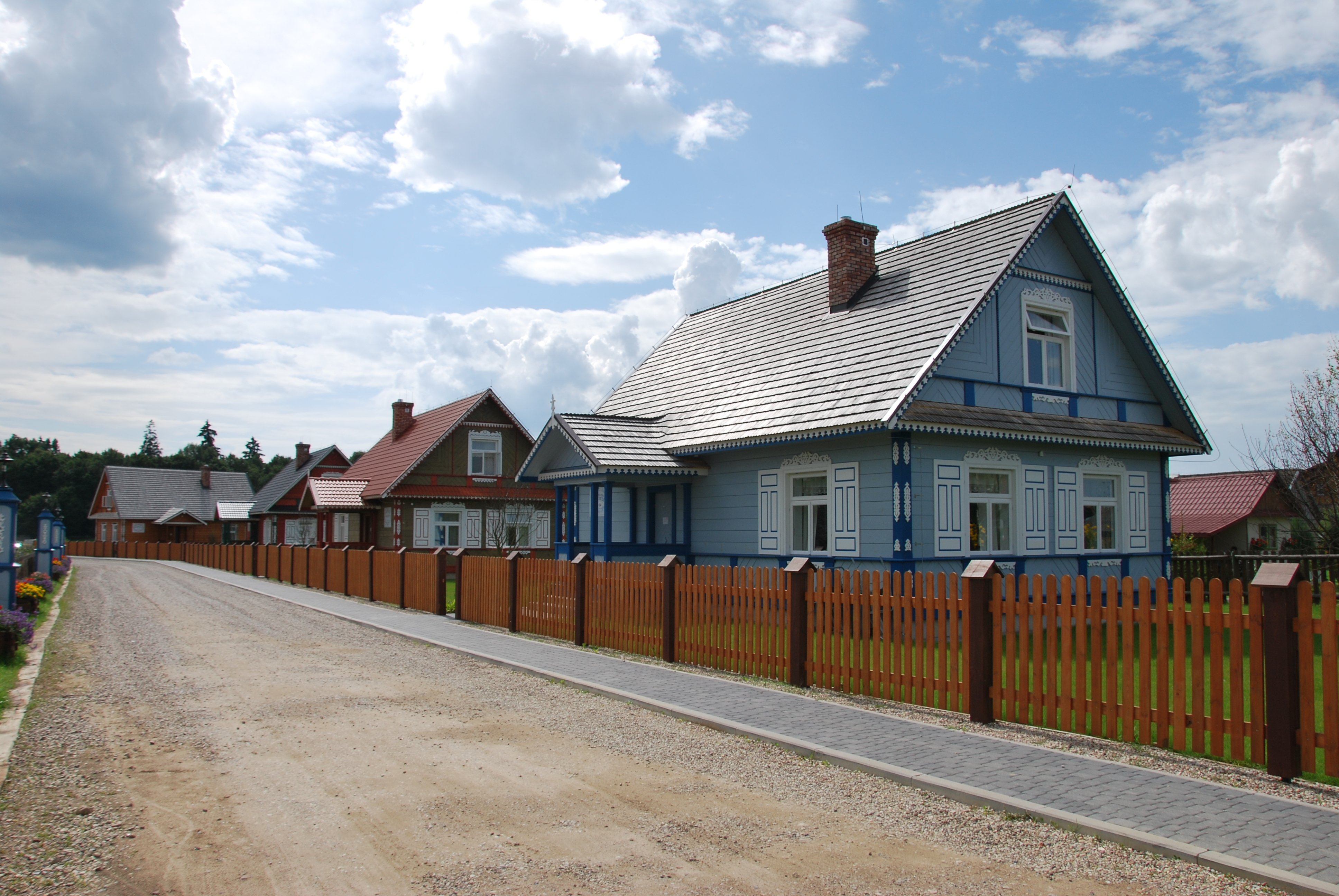 Sioło Budy, Białowieża Region